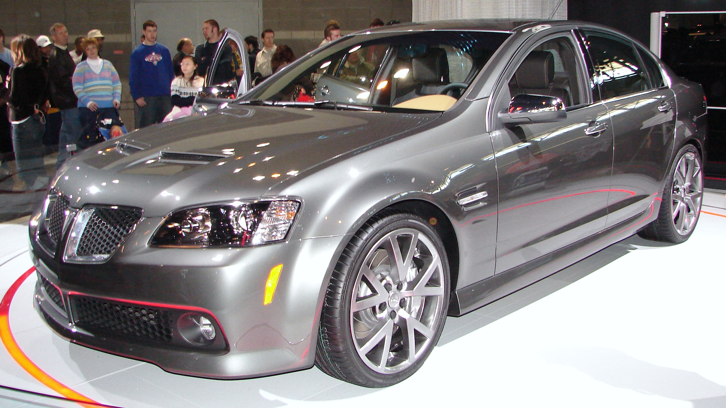 2008 MY Pontiac G8 GT Chicago ShowCar